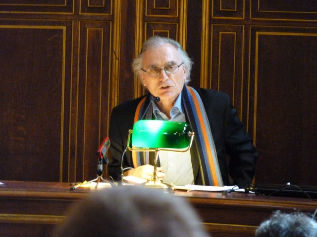 Michel Margairaz giving a speech at the conference "Centenaire d’Au-dessus de la mêlée" at Sorbonne.